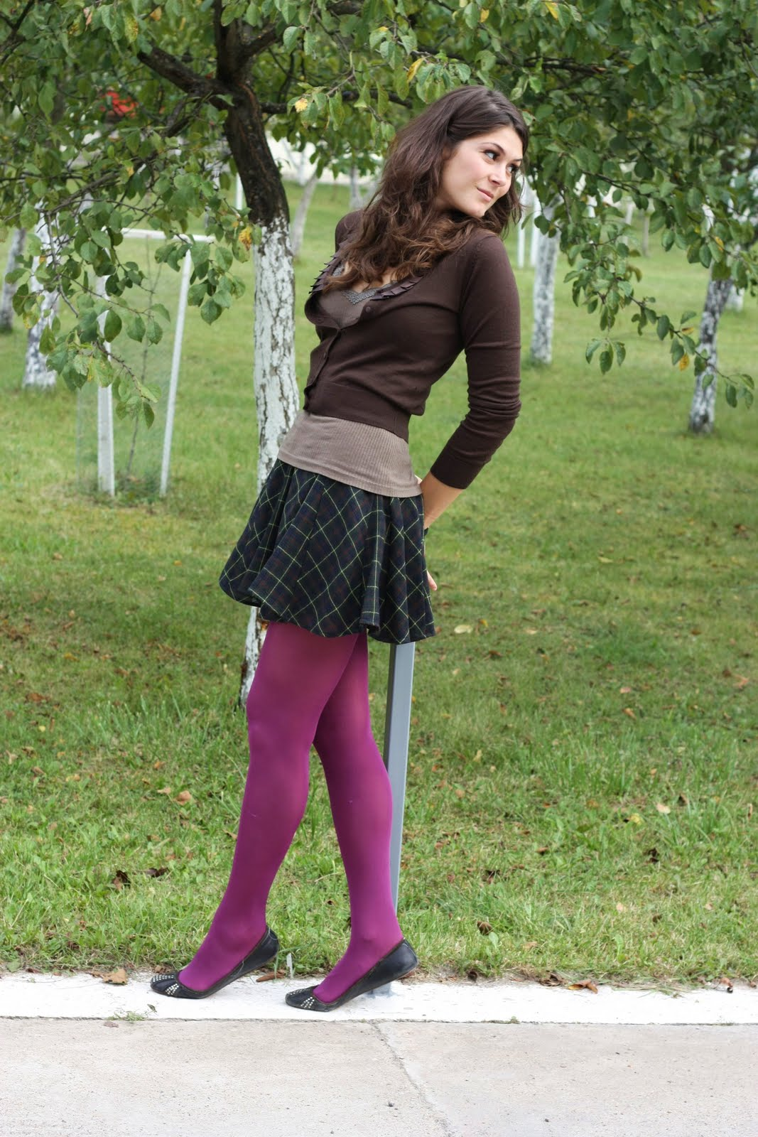 Woman wearing a top, a cardigan, a skirt, tights, and flats.